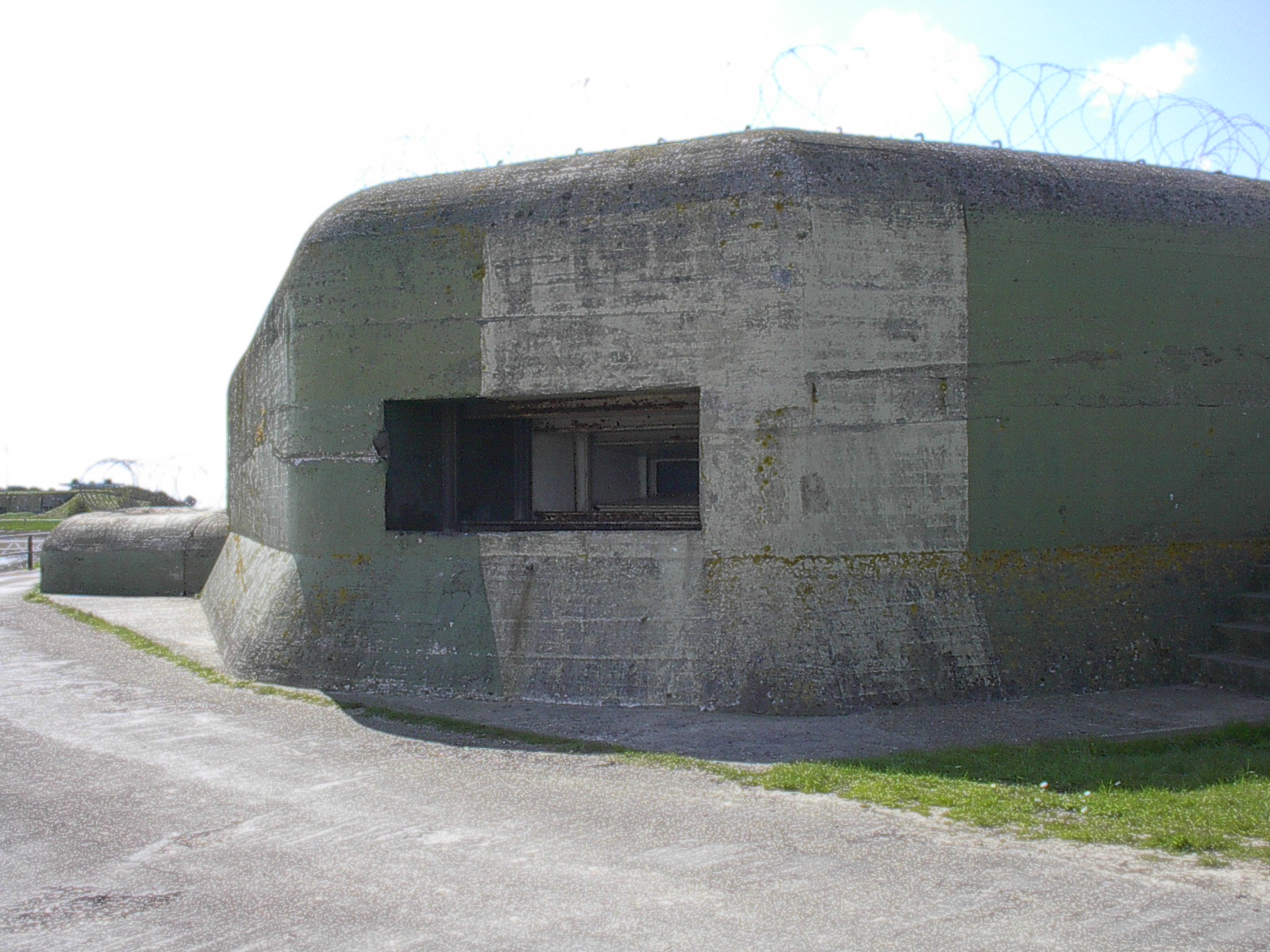 casemates at Kornwerderzand, Netherlands